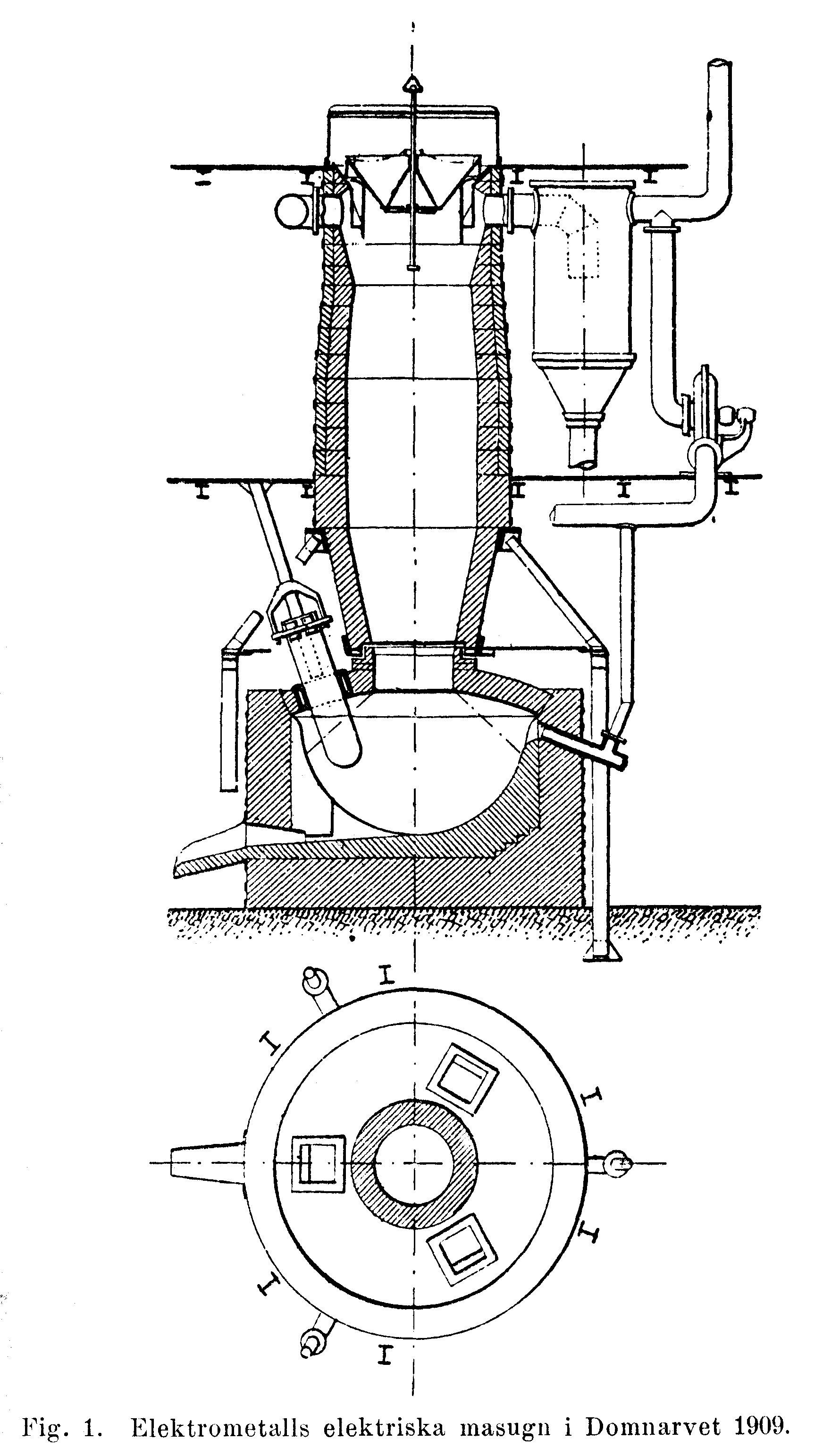 Electric blast furnace of Elektrometall at Domnarvet (Sweden) in 1909.